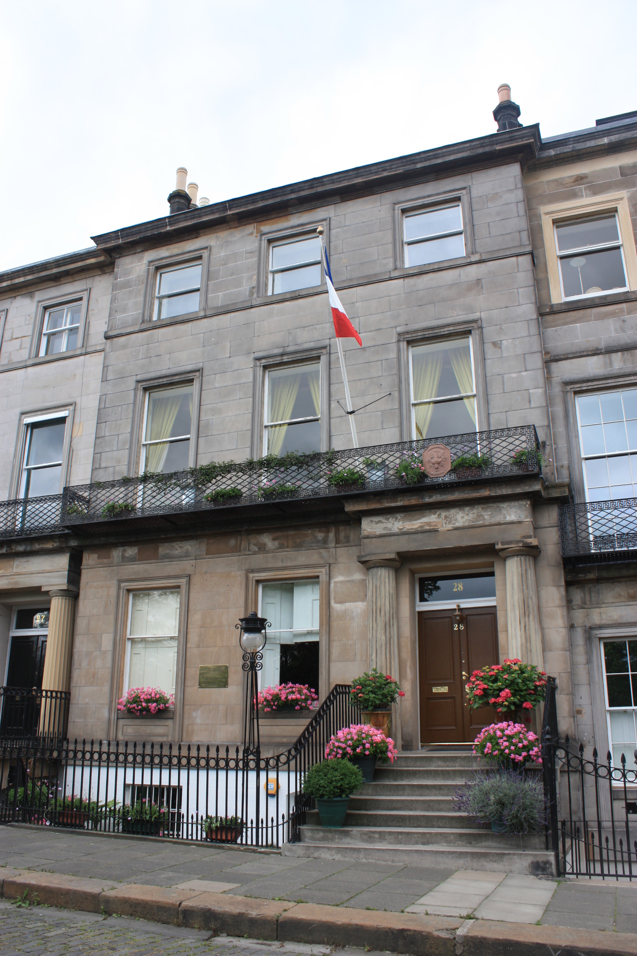 28 Regent Terrace, Edinburgh Wikidata has entry Q17570316 with data related to this item.